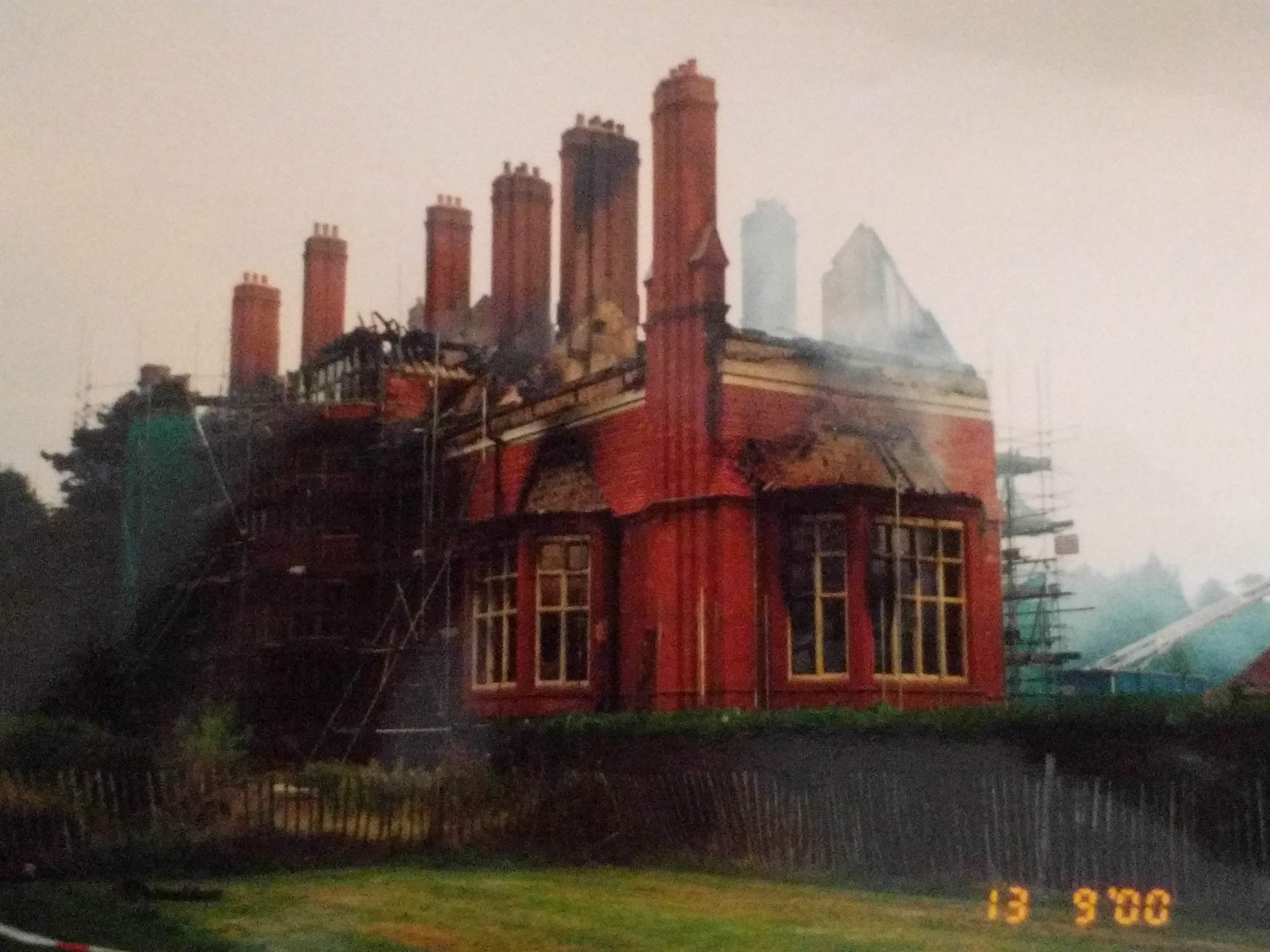 Photograph of Hatchford Park immediately following the fire that was started during renovations. (Date shown may be inaccurate)